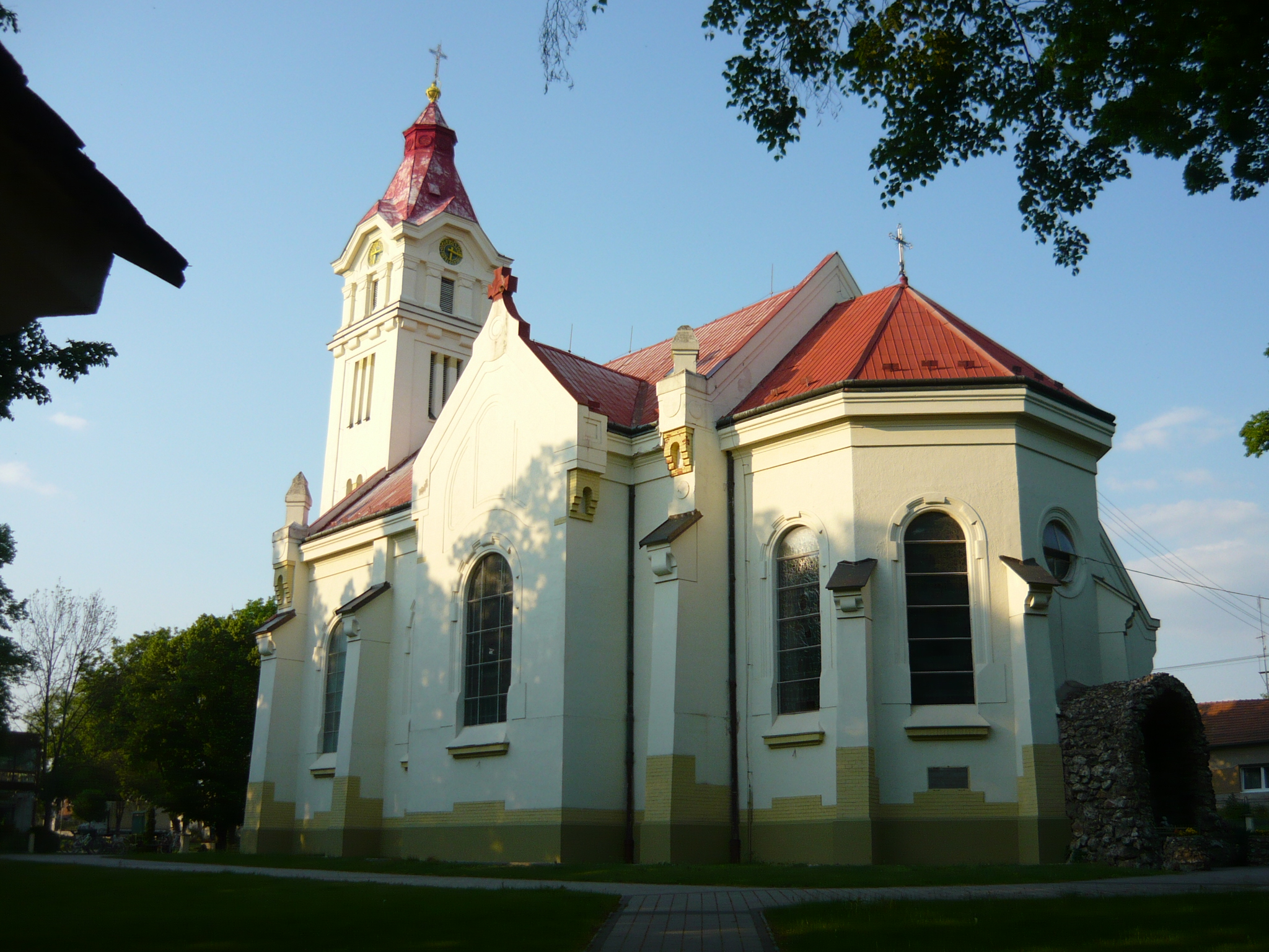 Church in Žabokreky nad Nitrou, Slovakia.